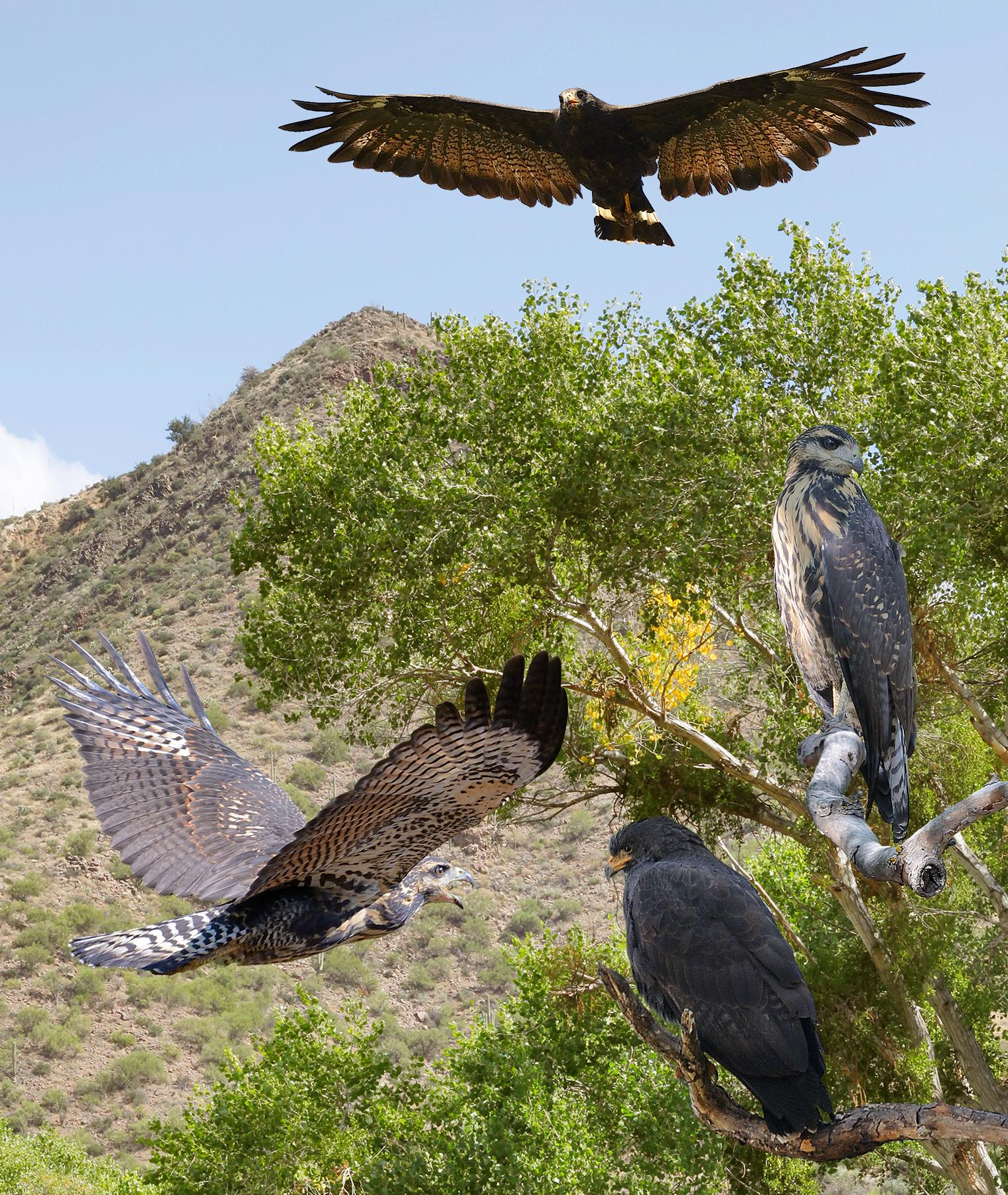 Common Black Hawk From The Crossley ID Guide Raptors